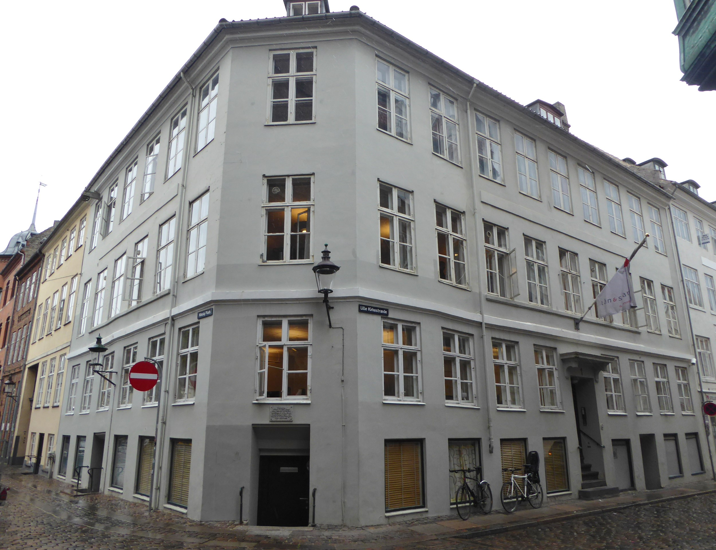 Building at the corner of Nikolaj Plads and Lille Kirkestræde in Indre By in Copenhagen.